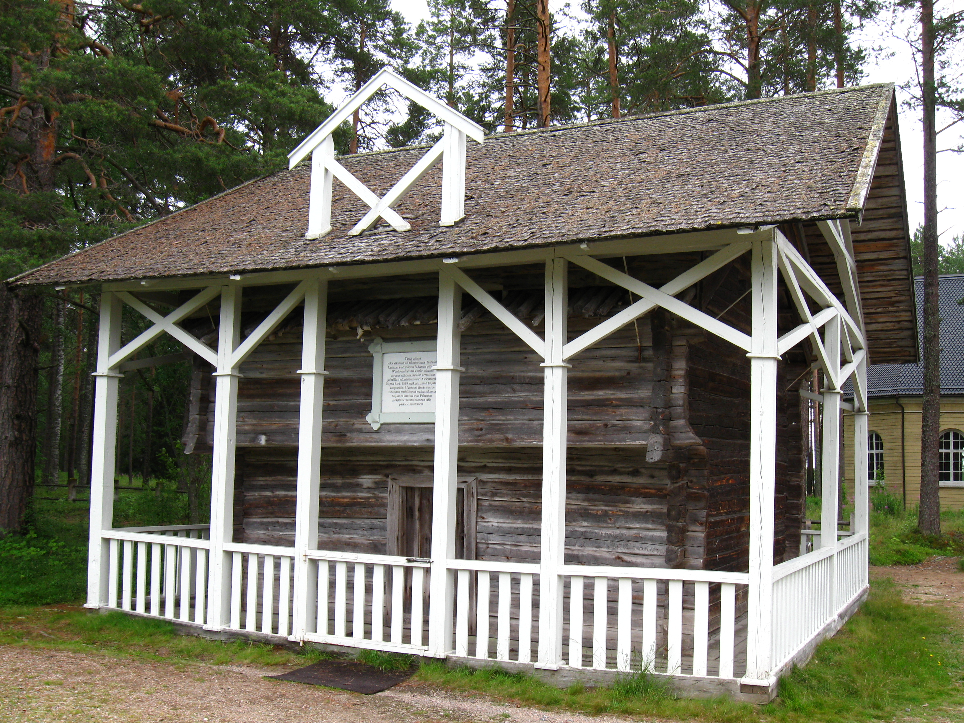 The so called emperor's stable in Paltaniemi, Kajaani, Finland, where Alexander I stopped for a meal on August the 28th, 1819.